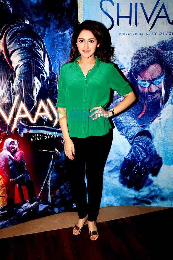 Sayyeshaa Saigal at the trailer launch of Ajay Devgan's Shivaay in Indore, snapped on 7 August 2016.